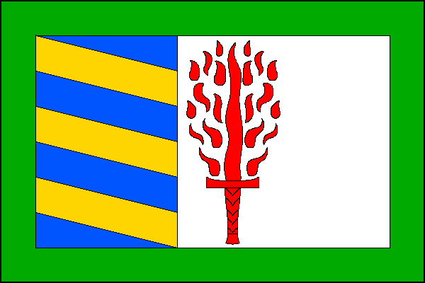 Municipal flag of Obora village, Plzeň-North District, Czech Republic.